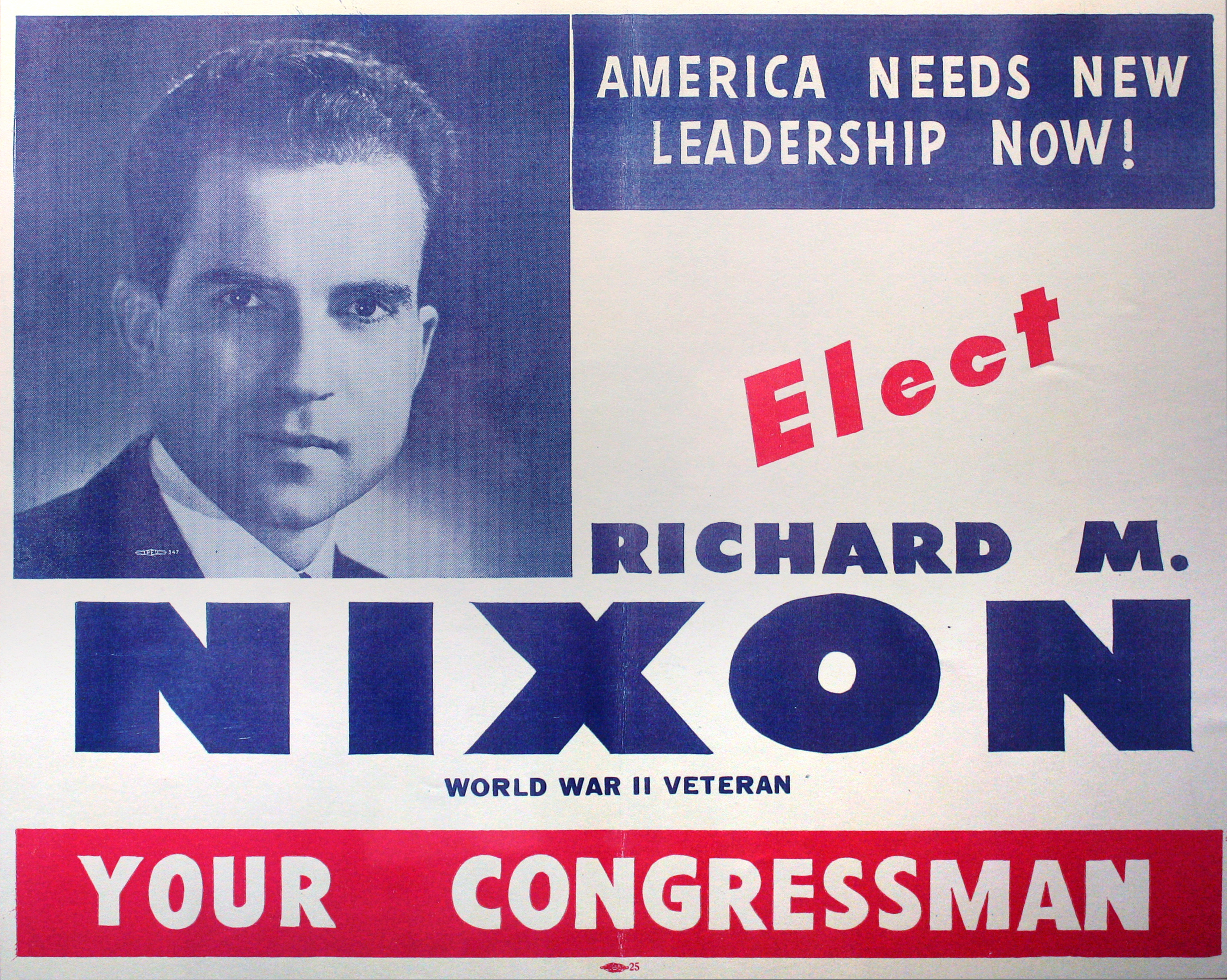 Election flyer/poster distributed on behalf of Richard Nixon's campaign for Congress, 1946.